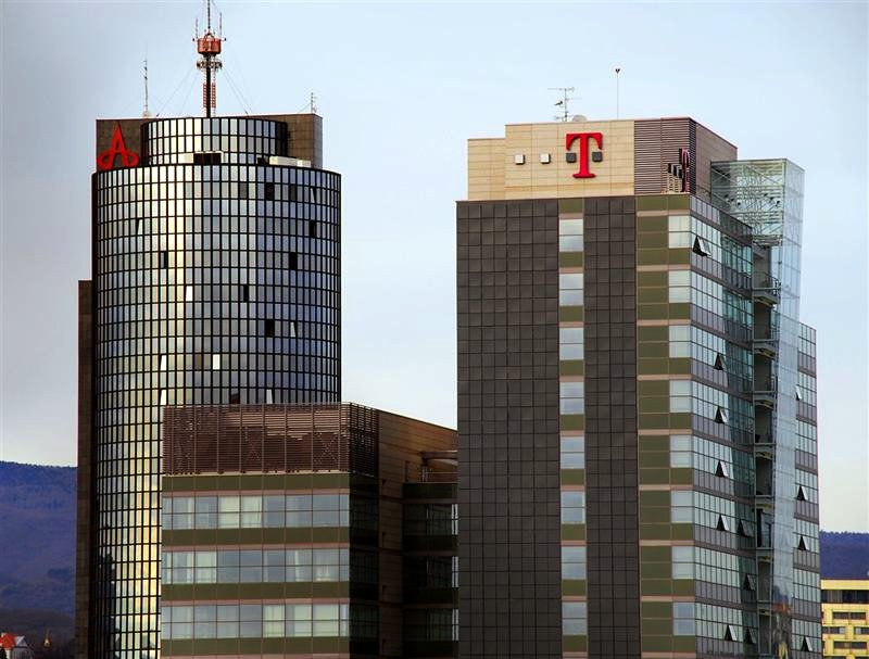 Business Centre T-Com Zagreb 2 - Architect Marijan Turkulin